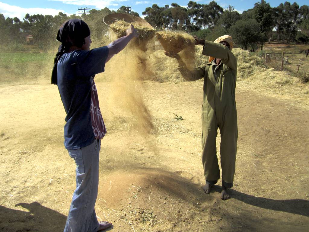 Farmers sifting grain by hand in Eritrea, Northeastern Africa.